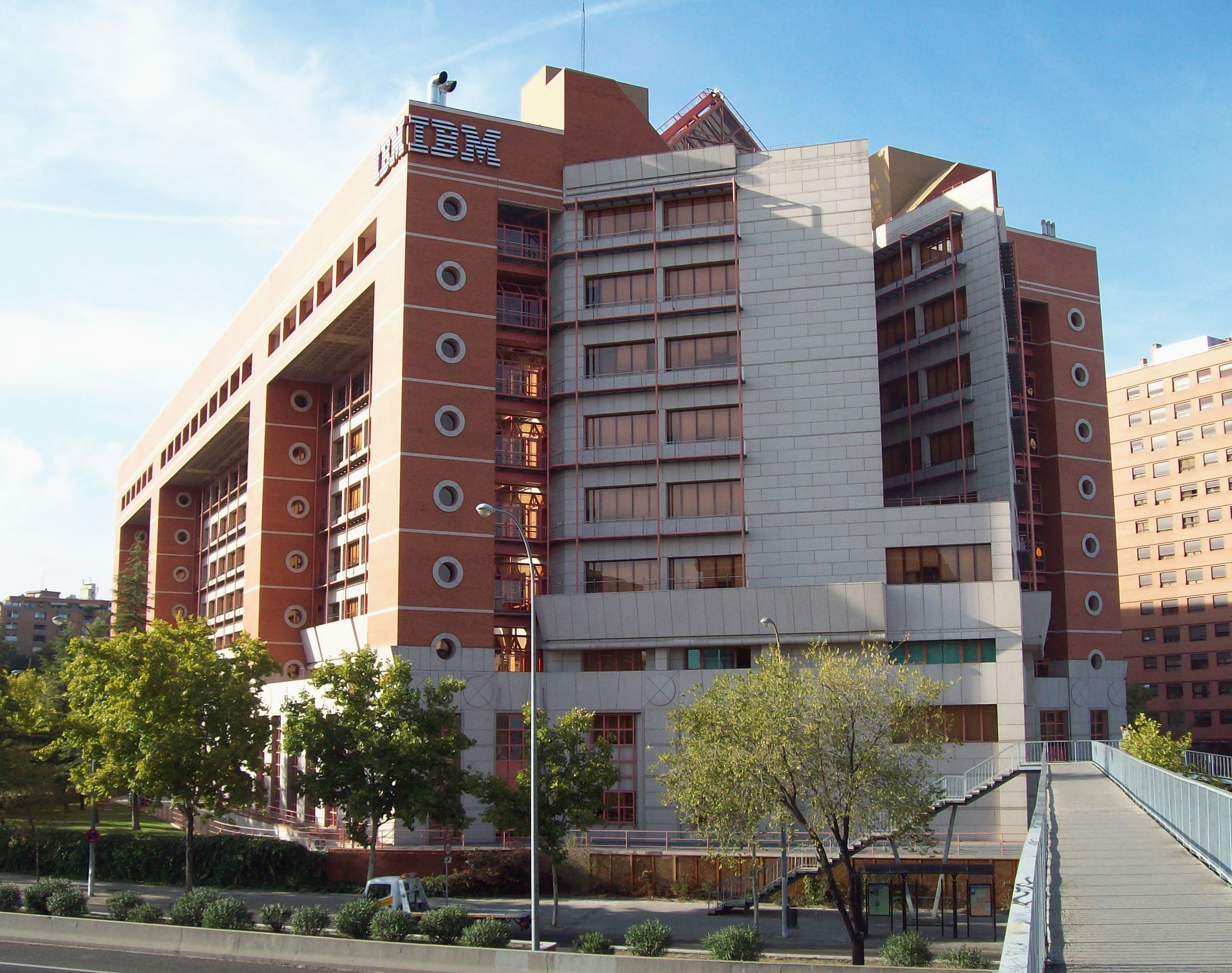 View of IBM building in Madrid (Spain) from the south-east angle (Avenida de América, avenue). Address: 26-28 Calle de Santa Hortensia (street) in Chamartín district. It was projected by architects Salvador Gayarre, Tomás Domínguez del Castillo and Juan Martín Baranda, and built from 1987 to 1989.